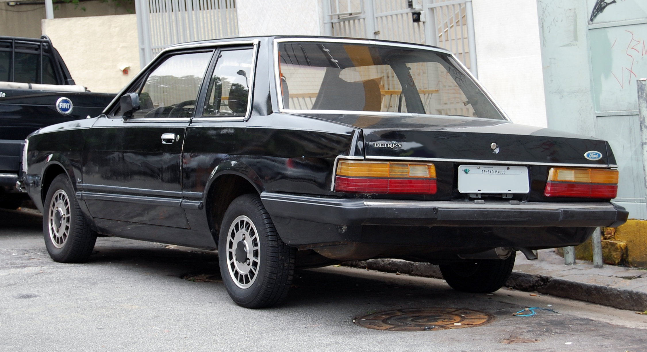 Ford Del Rey two-door sedan in São Paulo